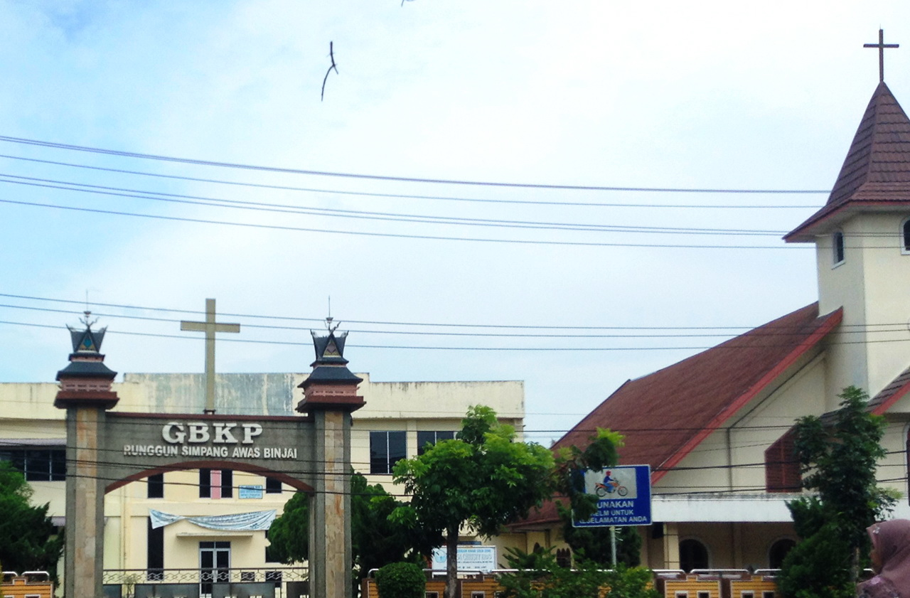 GBKP Rg. Simpang Awas Binjai, Klasis Binjai - Langkat, Church in Binjai Timur, Binjai